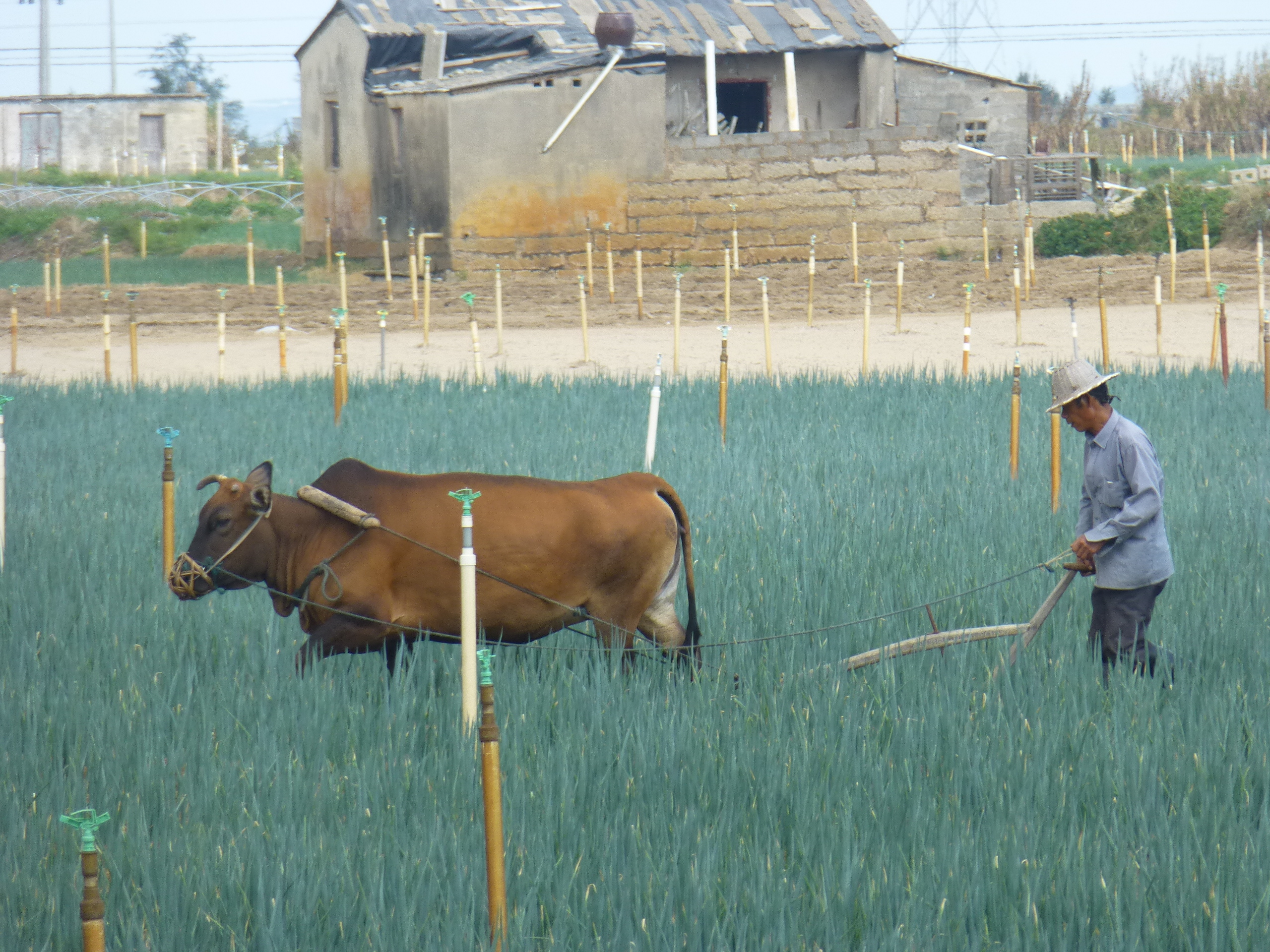 A farmer plowing with a buffalo (a rare sight!) in an onion field in Liu'ao, with a wind power tower as a background